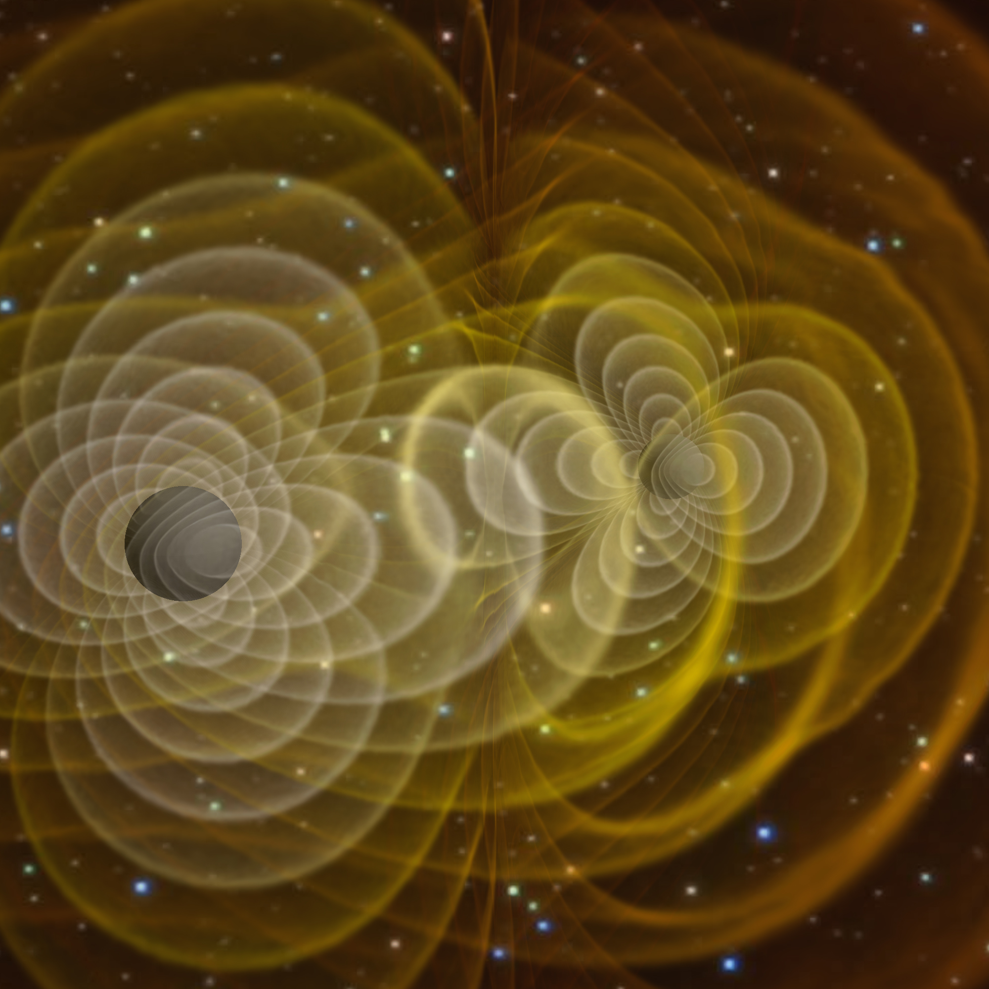 This visualization shows what Einstein envisioned. Researchers crunched Einstein's theory of general relativity on the Columbia supercomputer at the NASA Ames Research Center to create a three-dimensional simulation of merging black holes. This was the largest astrophysical calculation ever performed on a NASA supercomputer. The simulation provides the foundation to explore the universe in an entirely new way, through the detection of gravitational waves.